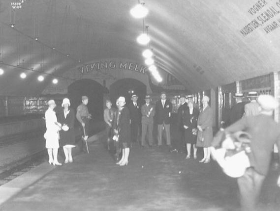 Nationaltheatret Station of the Oslo Metro, Norway.